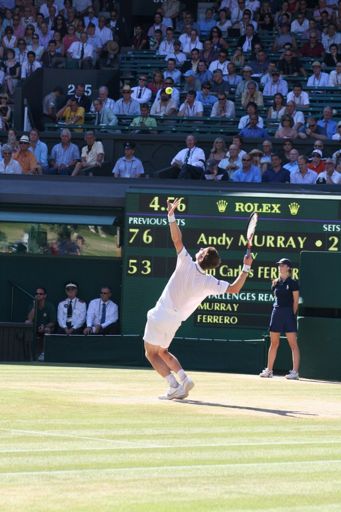 Andy Murray Wimbledon 2009 against Ferrero.